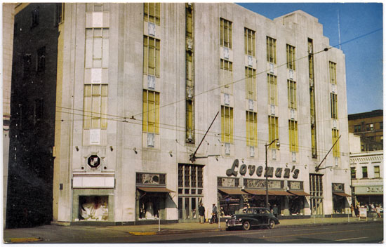 Loveman's was a department store in Birmingham, AL that began in 1887. A large new store was constructed on this corner in 1890. It burned down in 1934. This art deco masterpiece was constructed on the same site in 1935. Loveman's declared bankruptcy in 1979 and closed in 1980.